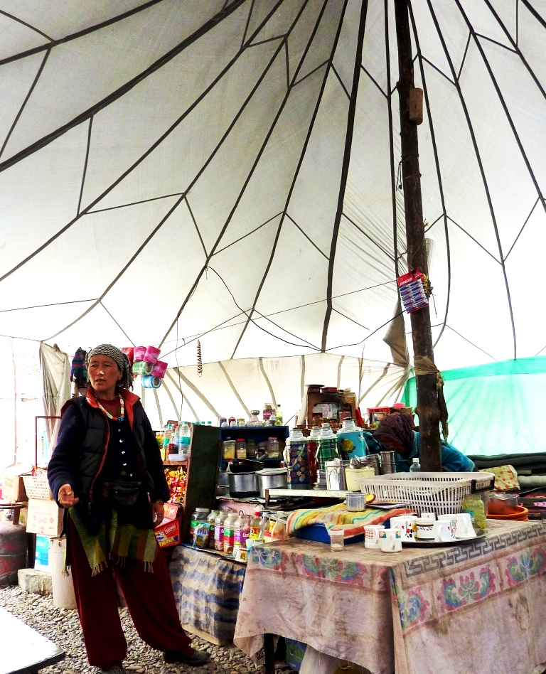 I took this photo on a trip to Ladkah in 2010 on the main road between Leh and Hemis monastery